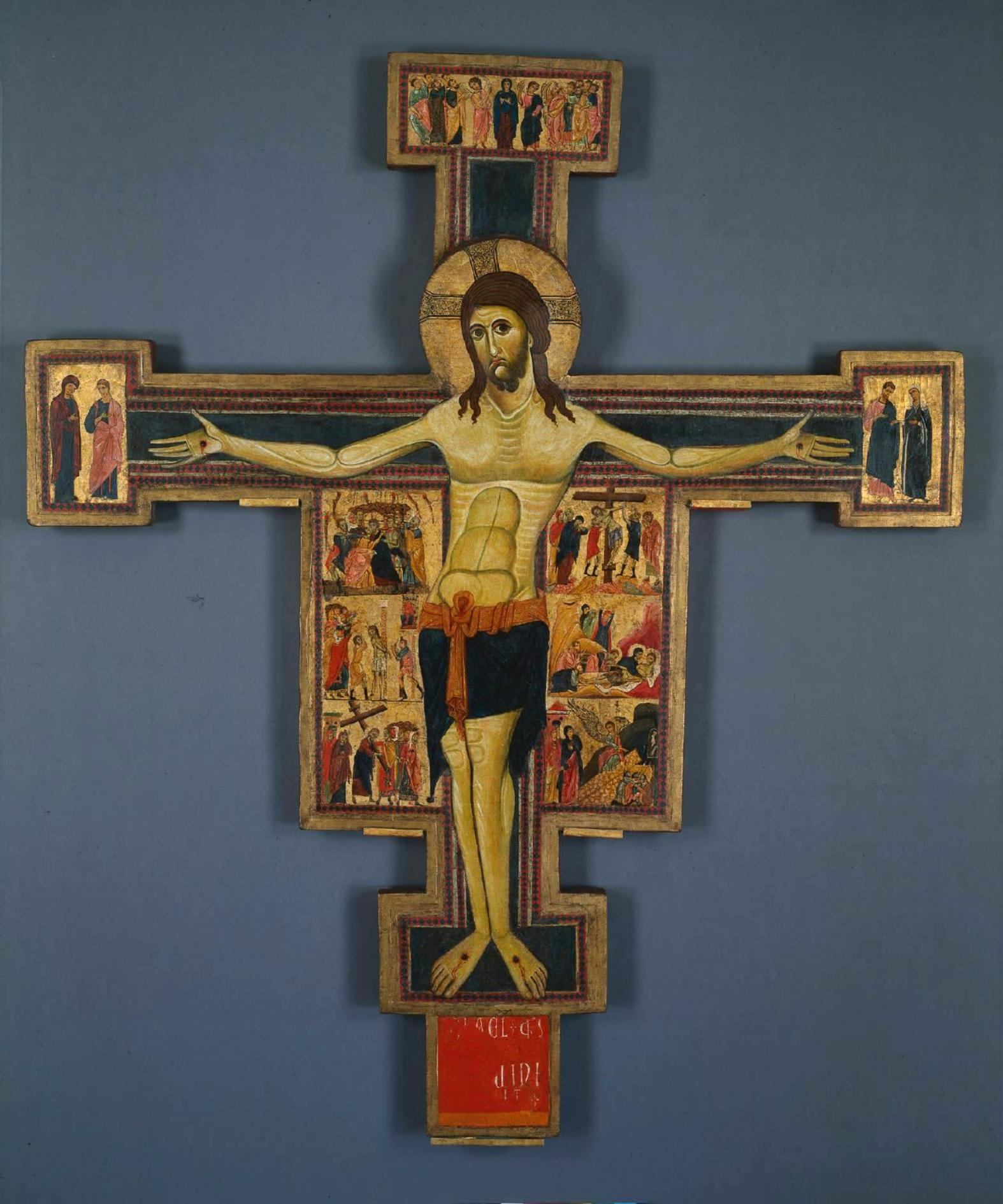 Michele di Baldovino, Crucifix with Scenes of the Passion, Italy, Pisa, 13th century c. 1230-1240, Cleveland Museum of Art